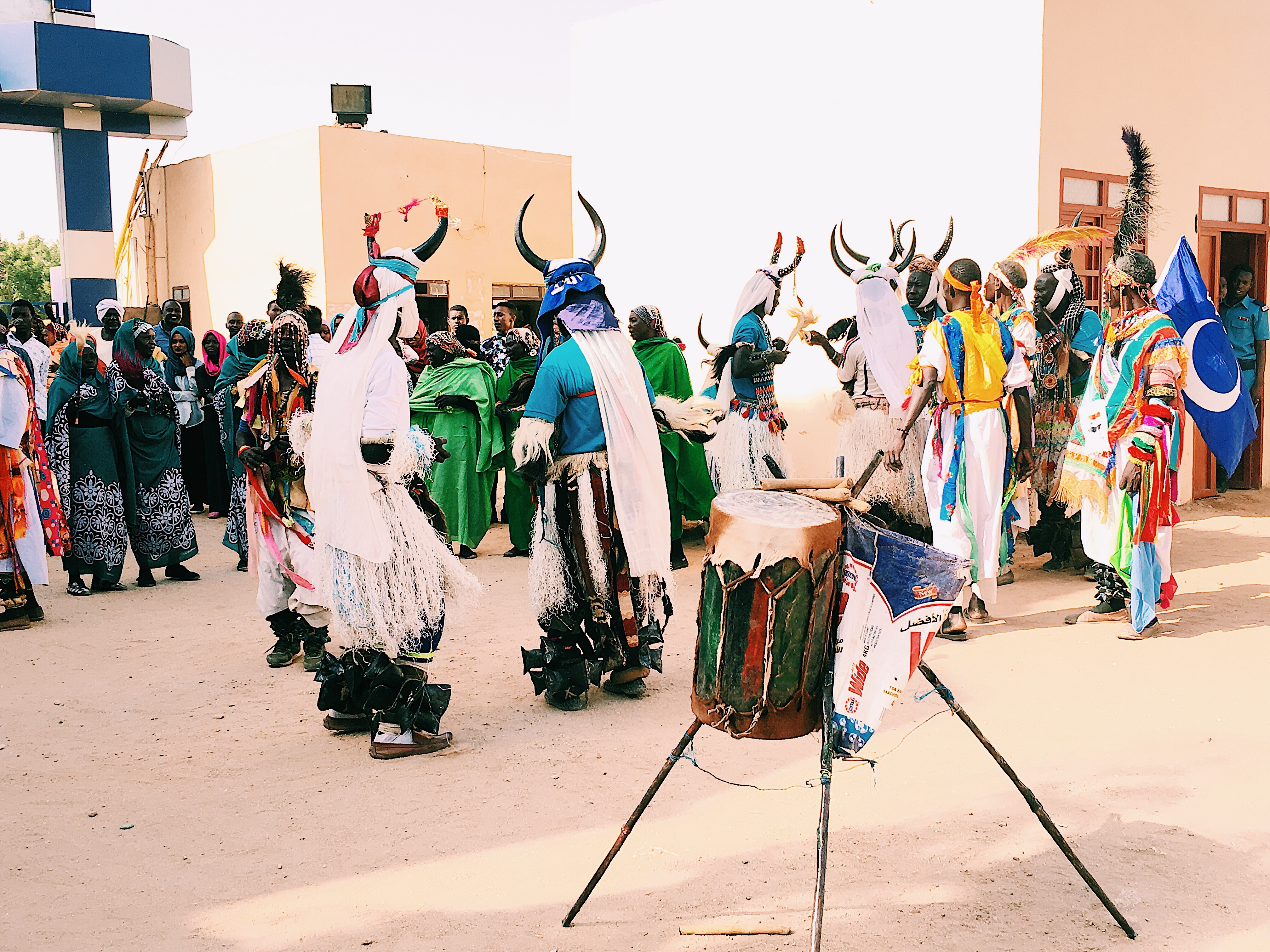 This is a group of dancers, showing traditional type of dancing using special handmade methods This is an image with the theme "Play" from: Sudan